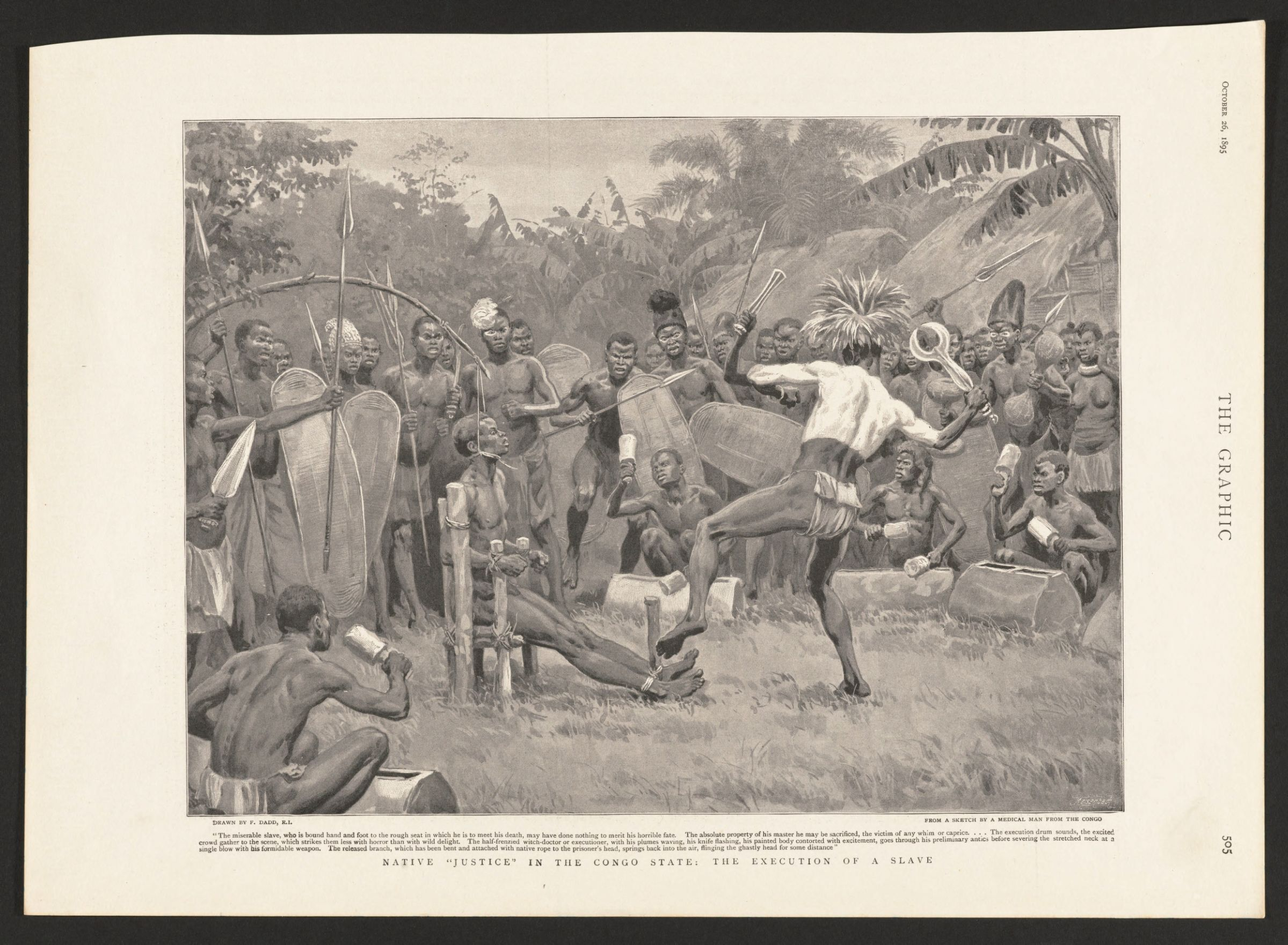 Native "justice" in the Congo state : the execution of a slave Production: Drawn by F. Dadd, R.I., from a sketch by a medical man from Congo.